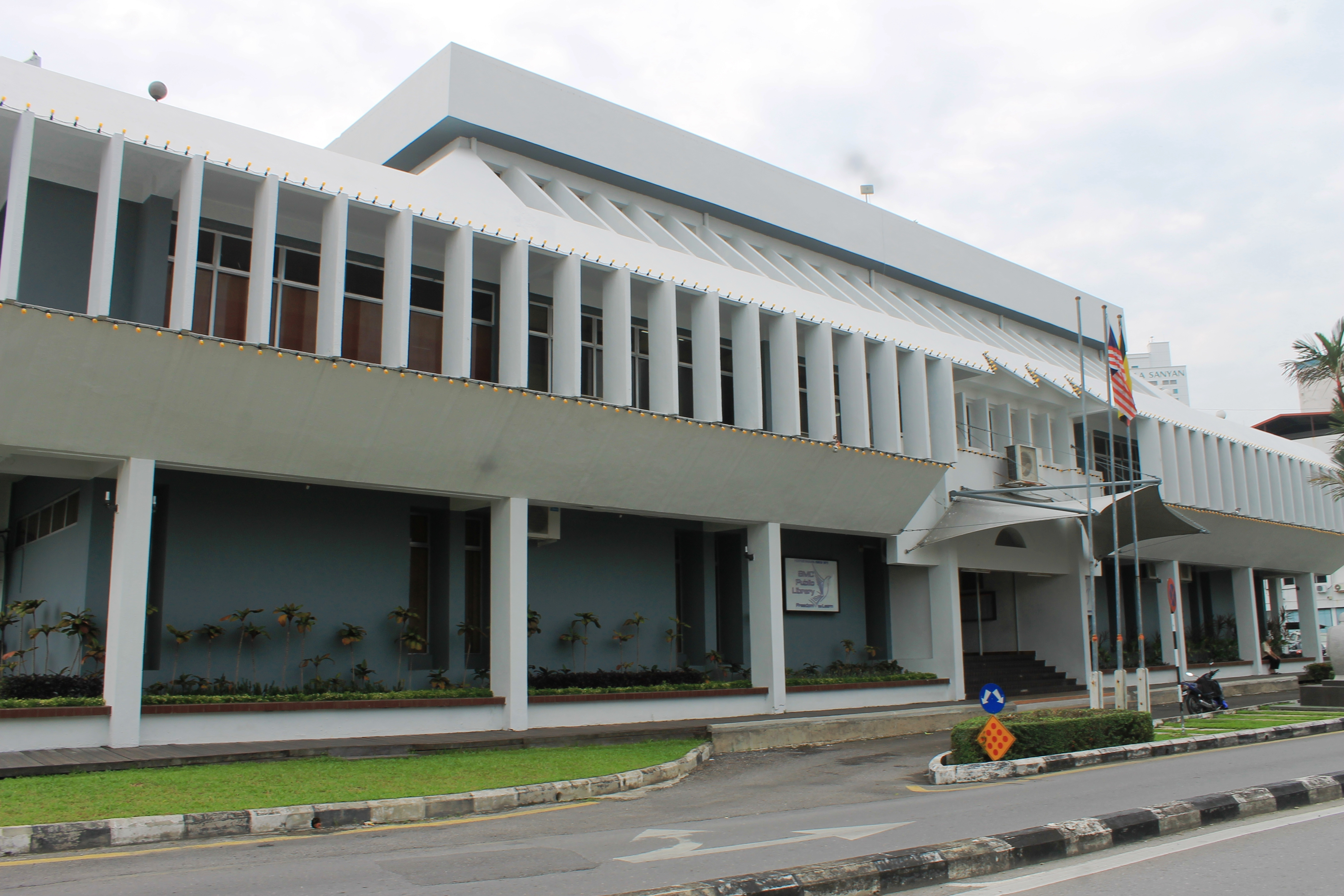 The present SMC public library building was built in 1986 at Keranji road, Sibu, Sarawak.